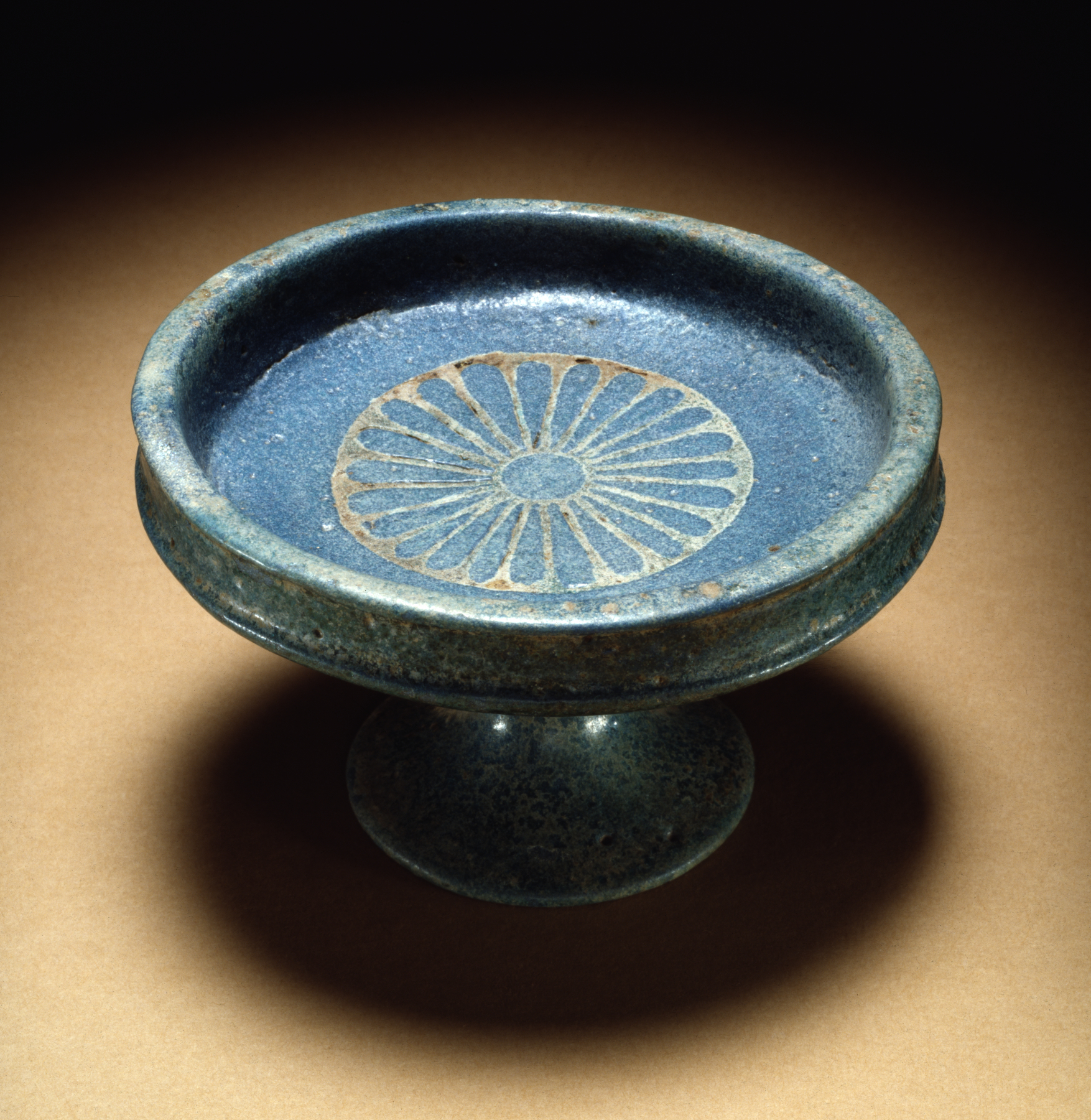 A daisy decorates the interior of a tazza, or footed dish. A point on the bottom of the saucer fits into a corresponding depression in the stand, securing the two together. Patterns cut into the still moist composition were filled with a different colored paste to create the inlay.